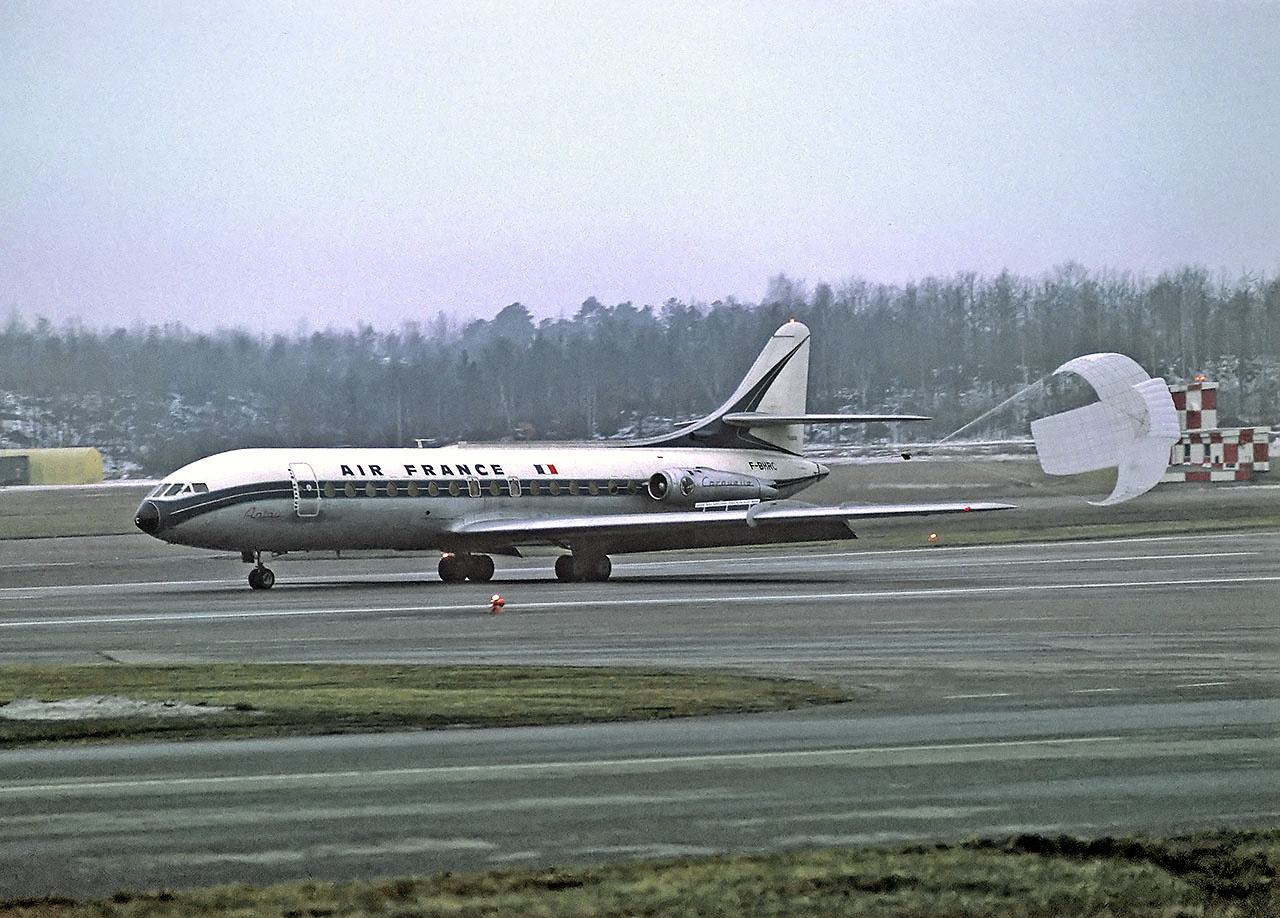 An Air France Sud SE-210 Caravelle III (registered F-BHRC) rolling out with a with drogue parachute at Stockholm-Bromma Airport